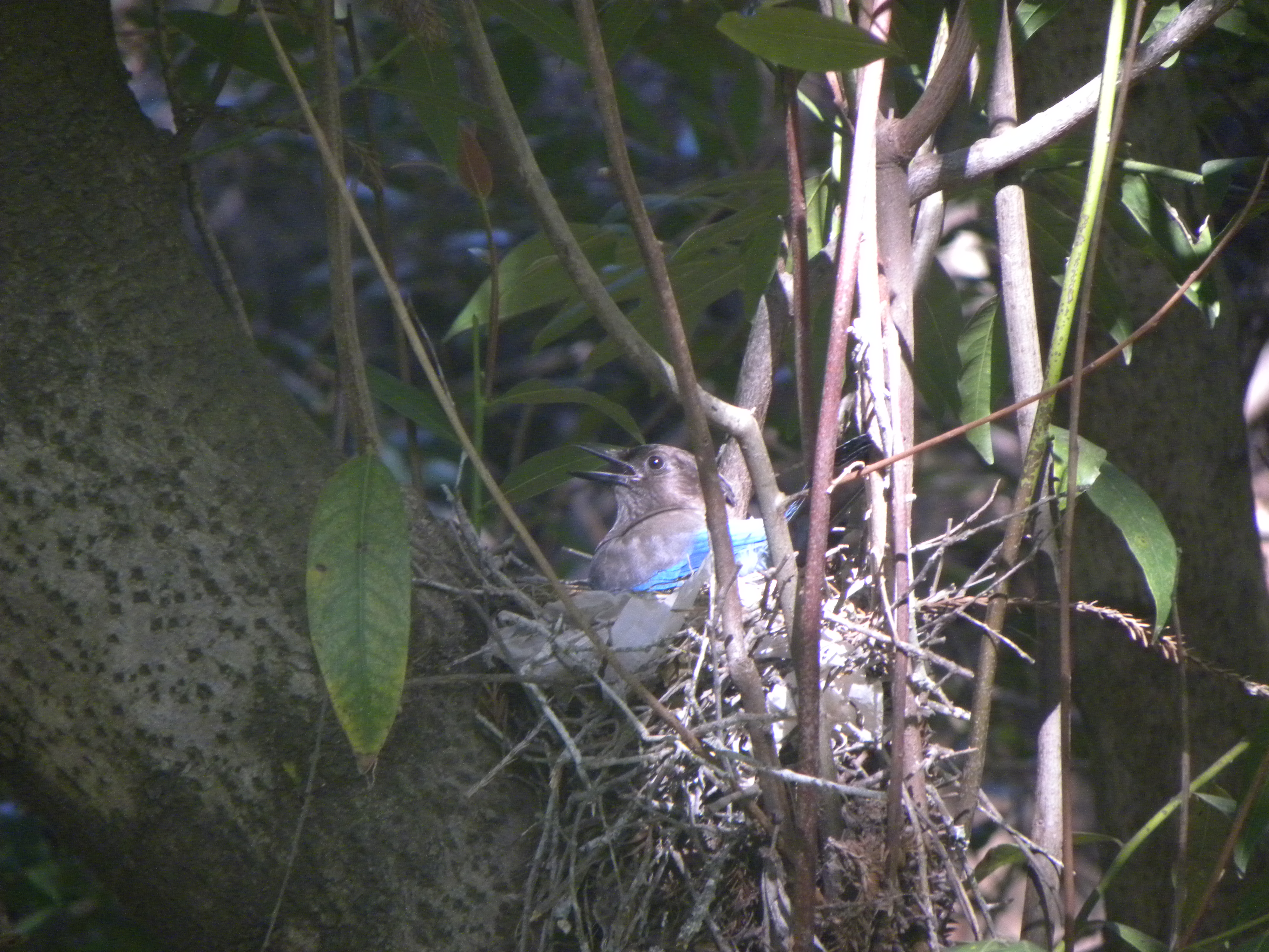 Steller's Jay nesting in a California Bay Laurel tree near Sveadal, California